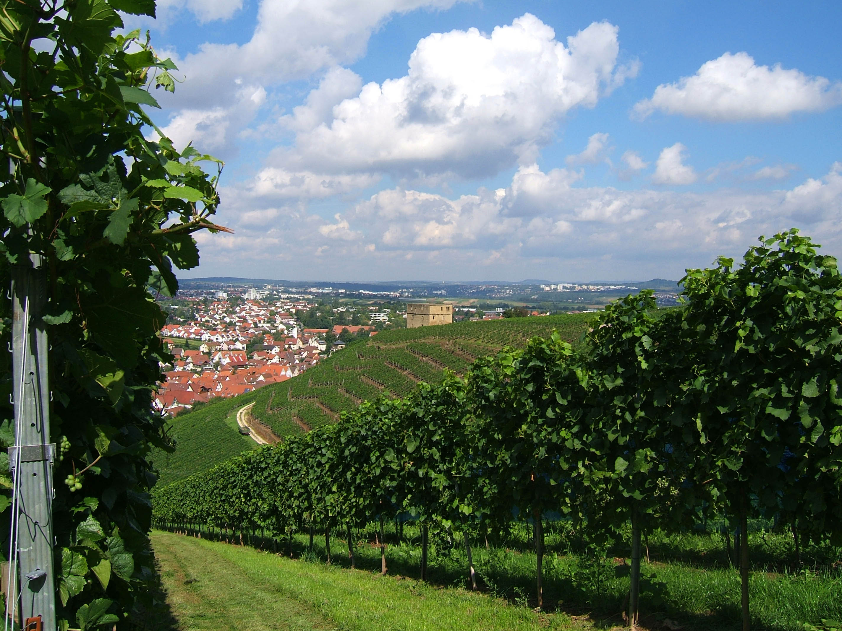 Y-Burg, a ruin in Germany